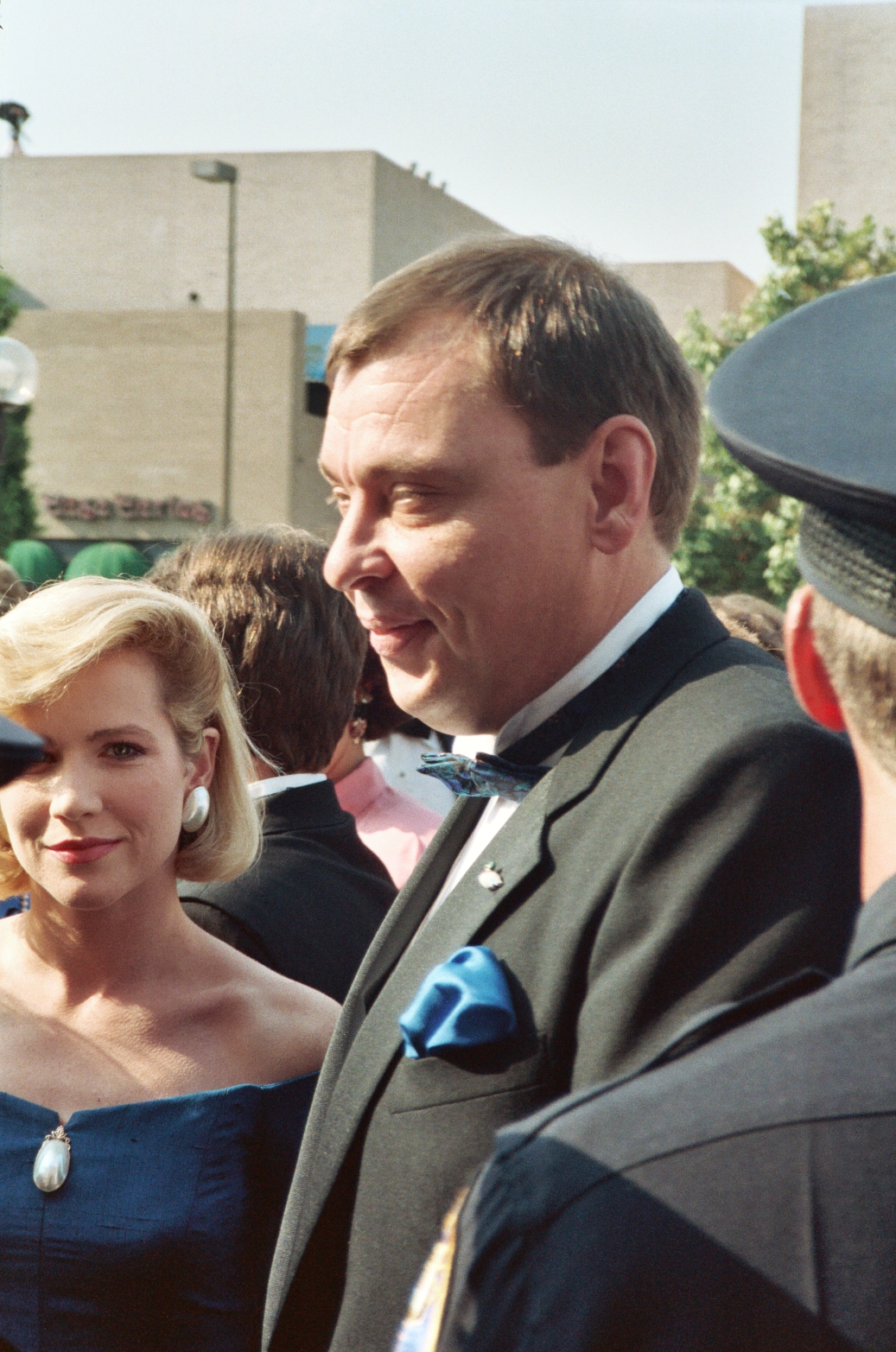 1988 Emmy Awards NOTE: Permission granted to copy, publish, broadcast or post any of my photos, but please credit "photo by Alan Light" if you can. Thanks. Scanned from the original 35MM film negative.